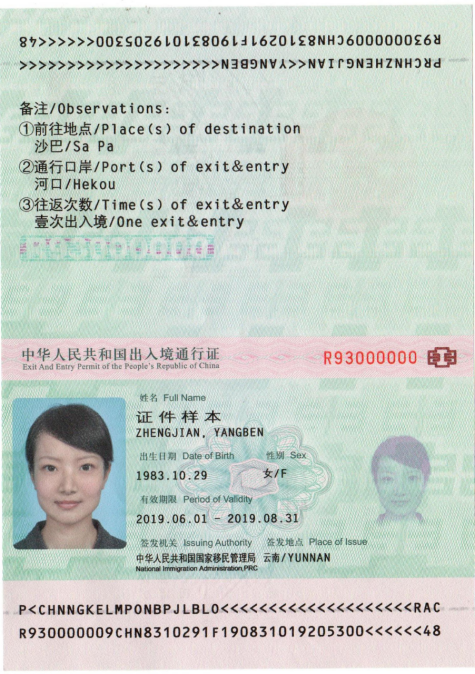 Observations and Personal Info Page People's Republic of China Entry and Exit Permit for Border Tourism Only